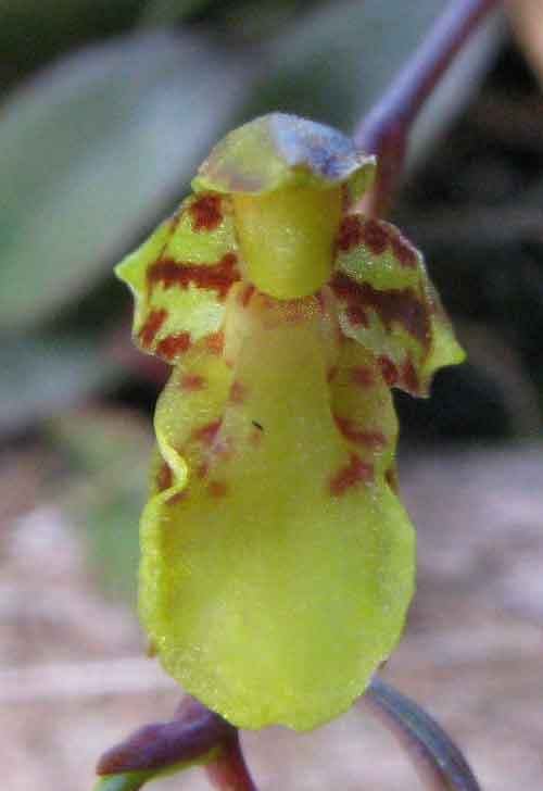 Leochilus labiatus, first record for Bahia, Brazil.